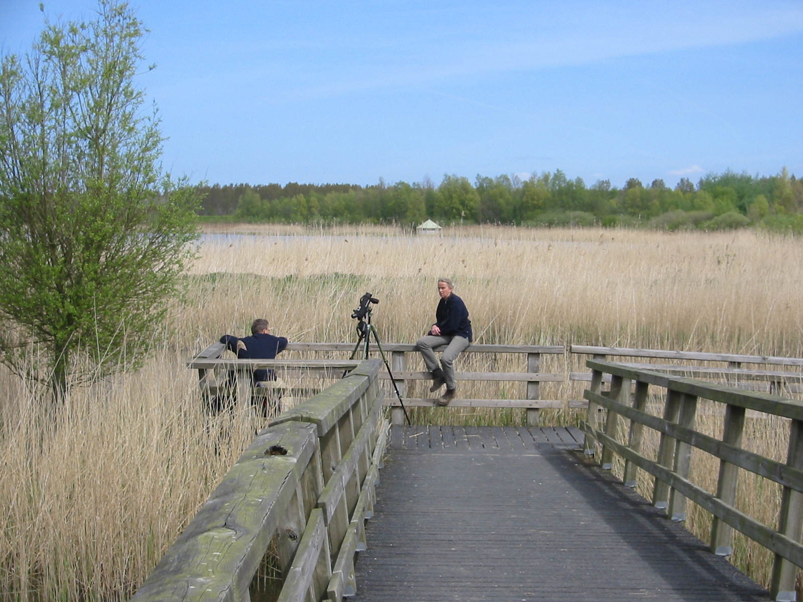 Birdwatching.